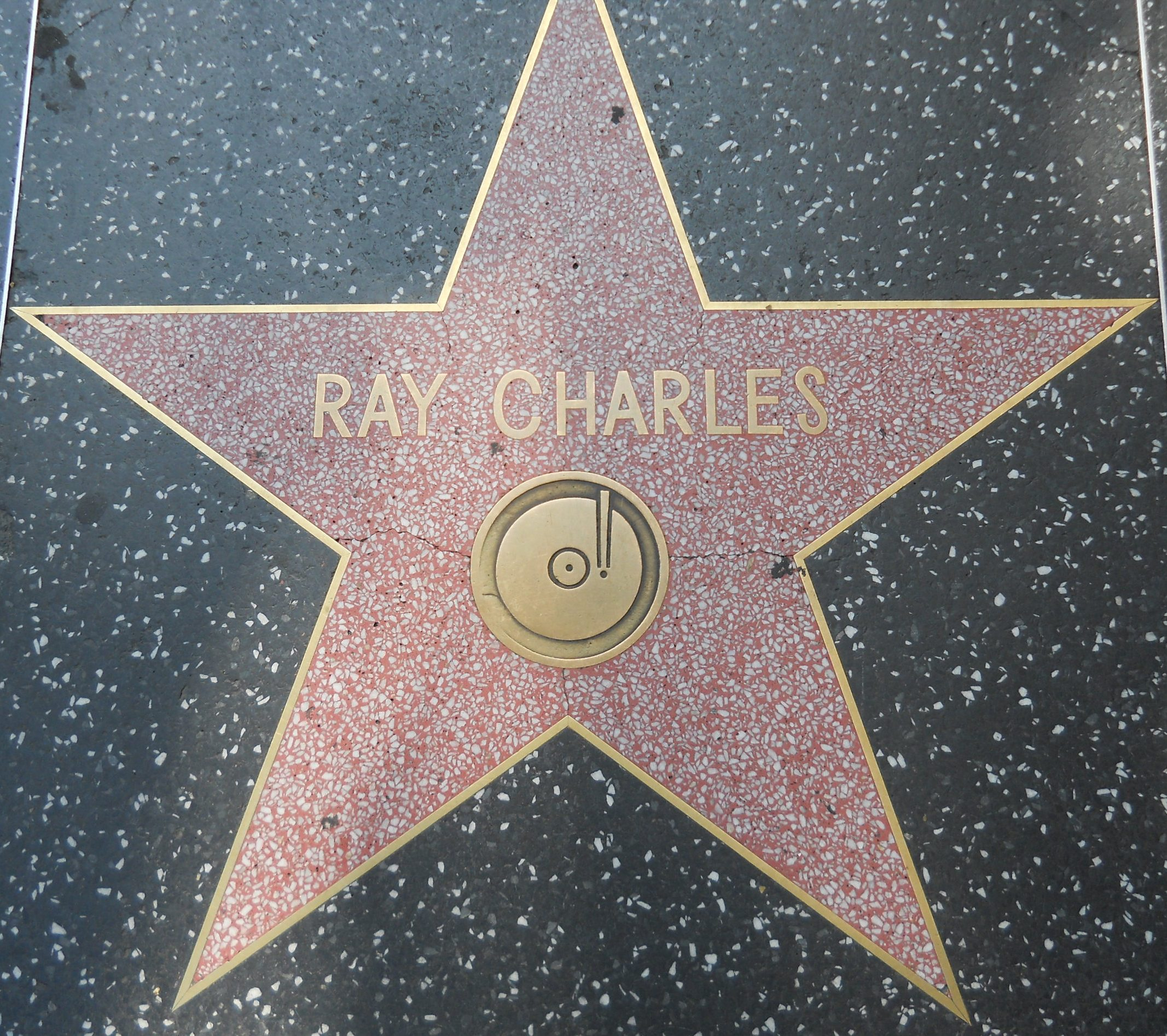 Ray Charles' star on the Hollywood Walk of Fame at 6777 Hollywood Blvd.